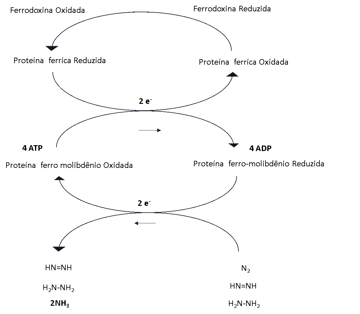 Biochemical nitrogen fixation process